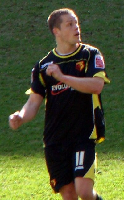 Heiðar Helguson playing for Watford. 21/03/10 Cardiff V Watford, Championship, Cardiff City Stadium, Cardiff, Wales